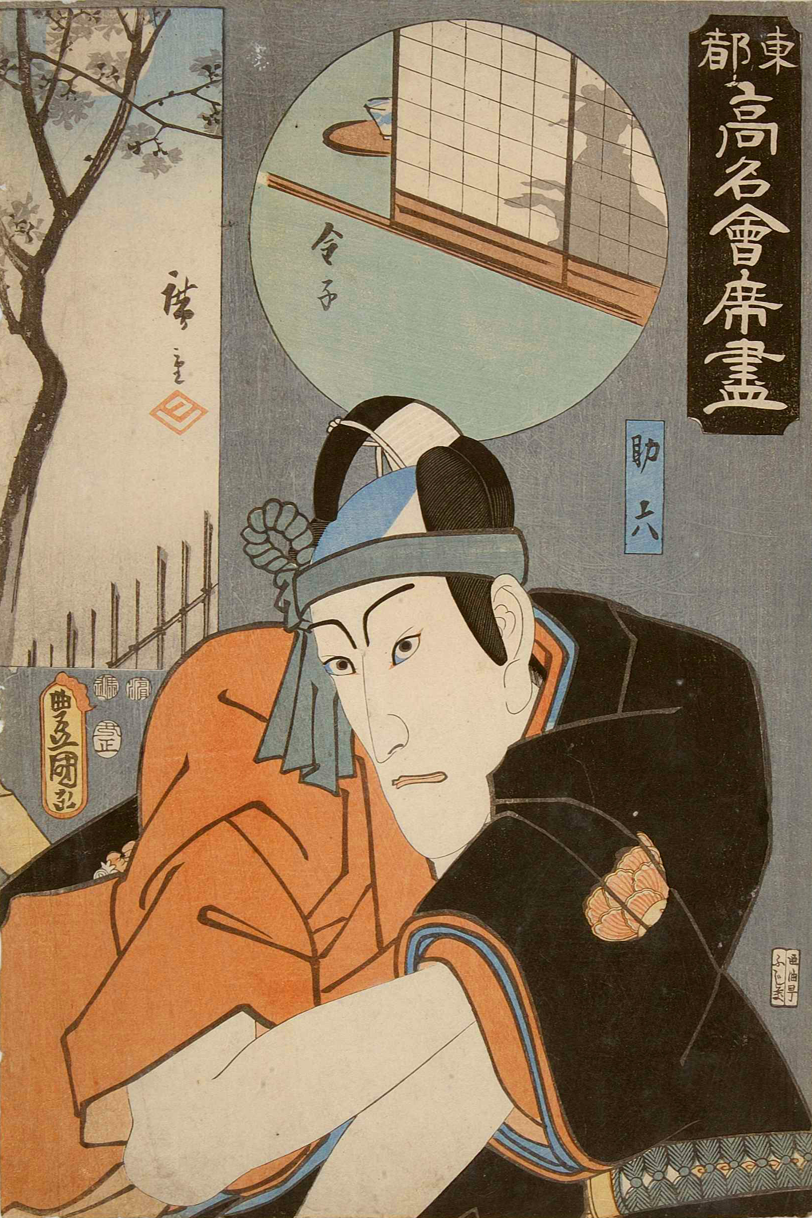 “Ichikawa Danjūrō VIII as Sukeroku in Tōto Kōmei Seki-dukushi, by Toyokuni Utagawa III